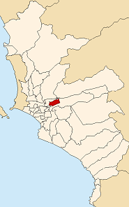 Map of Lima highlighting the Santa Anita district in northern Lima.